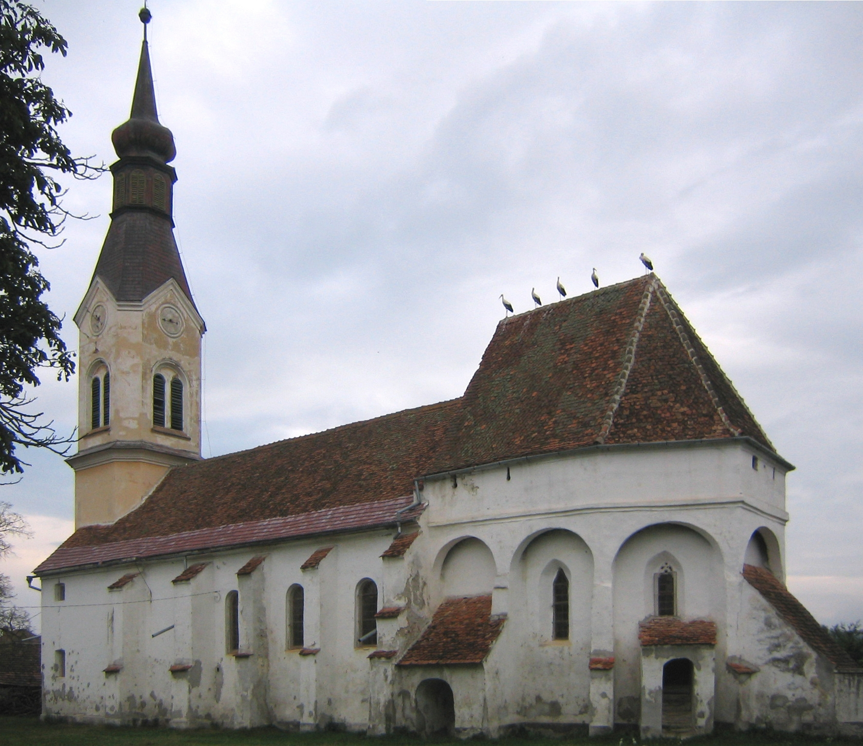 Saxon Fortified Church in Dacia, Romania - Kirchenburg in Stein/ Dacia